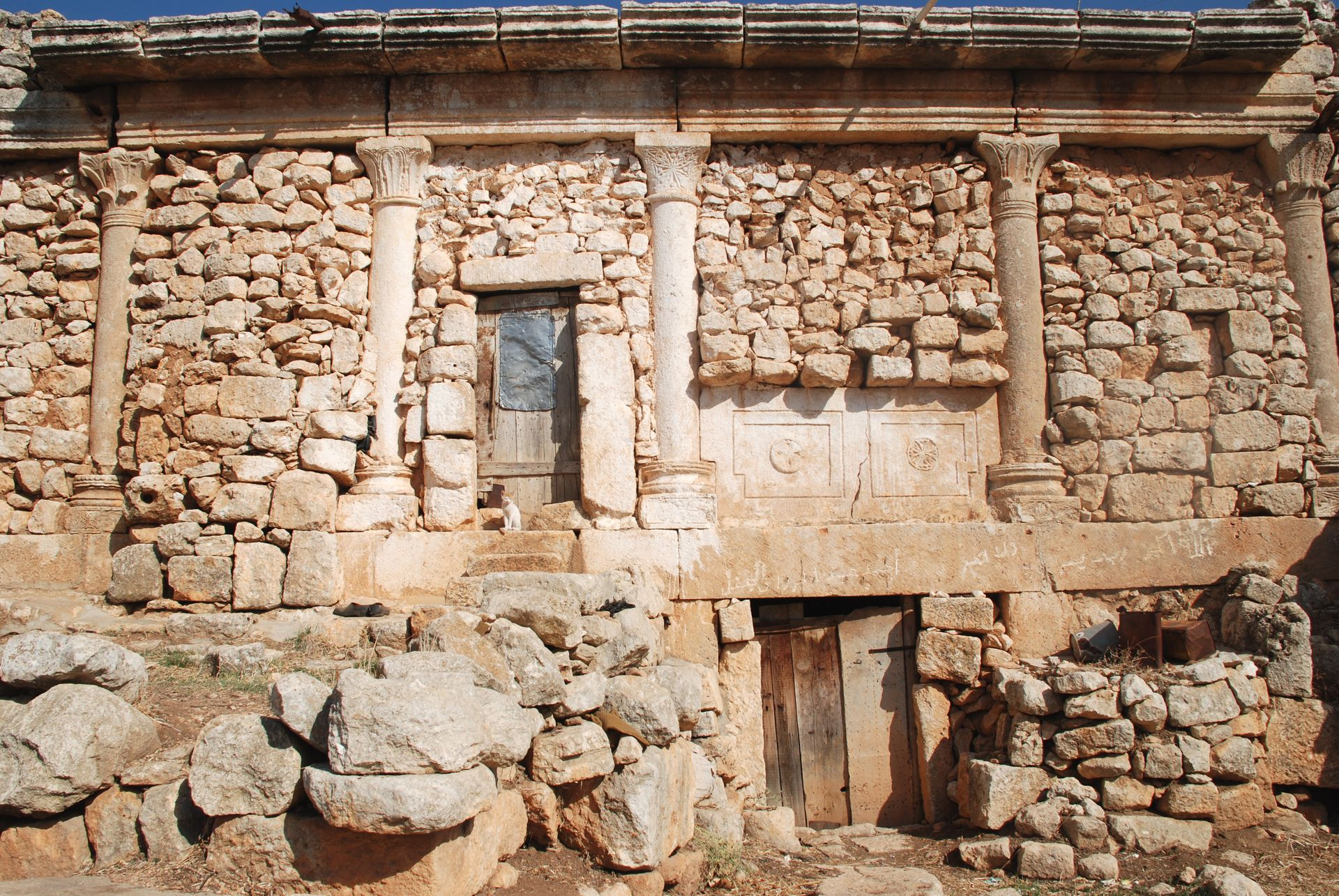 Refade, dead city near Church of Saint Simeon Stylites, Syria